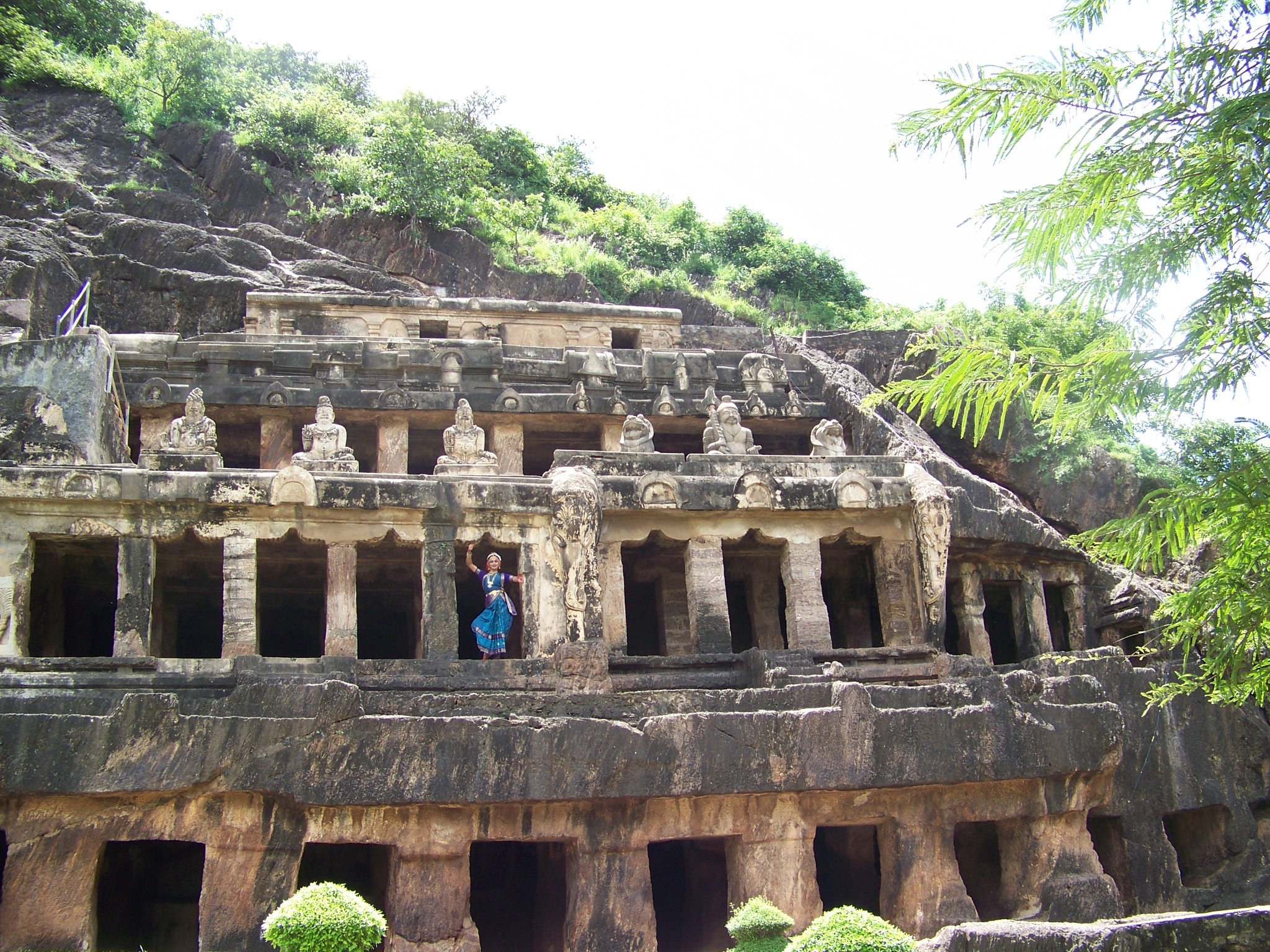 Rock cut cave on the hill (Undavalli caves)